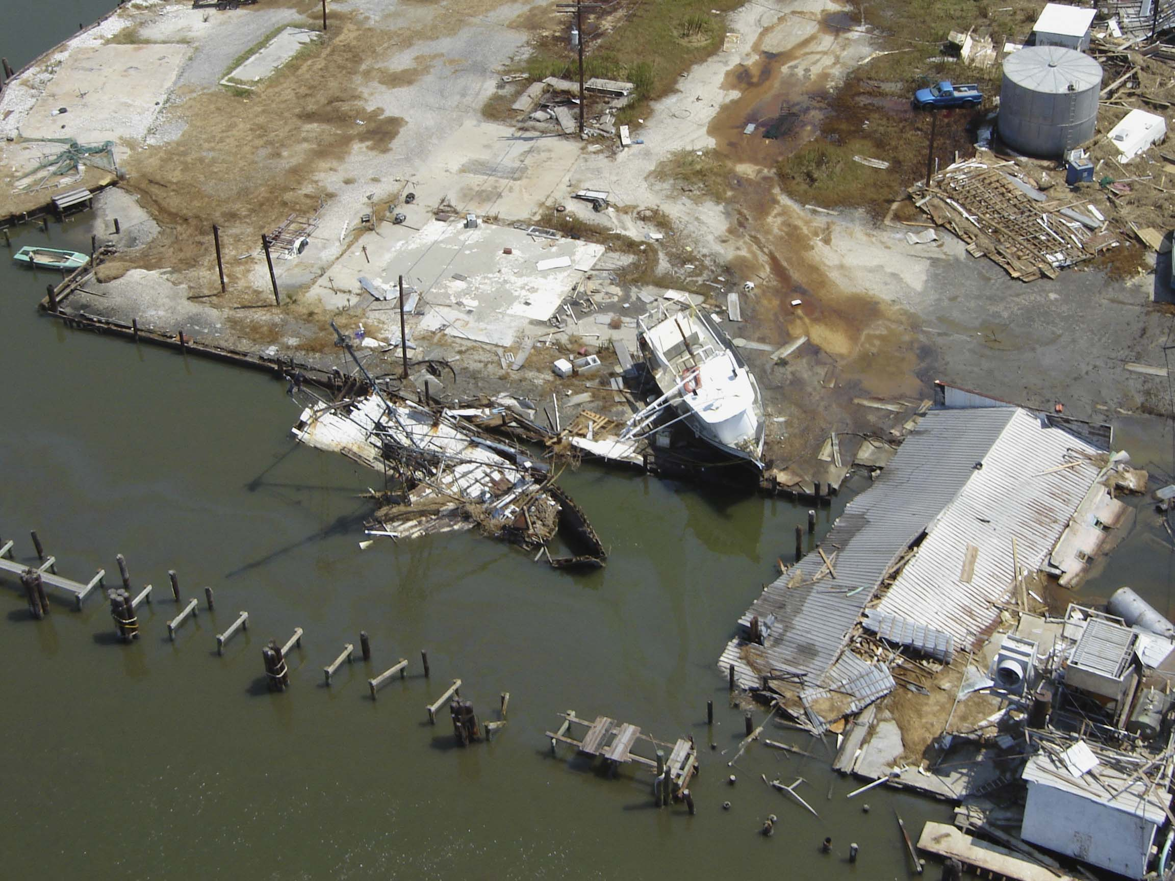 Damaged boats and docks in Grand Isle Louisiana after Hurricane Katrina.